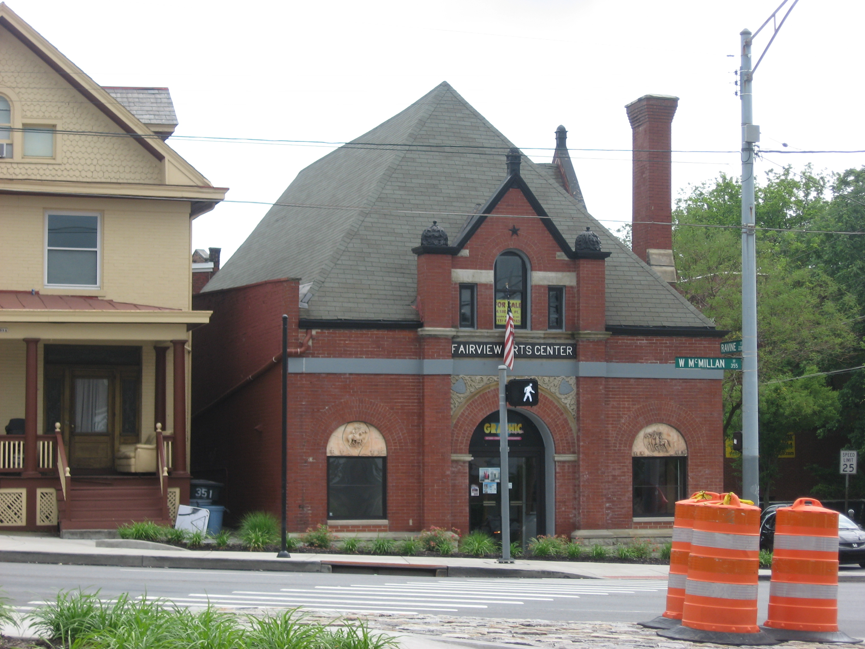 Front of Police Station No. 7, located at 355 E. McMillan Street in Cincinnati, Ohio, United States. Built in 1895 according to a Samuel Hannaford design, it is listed on the National Register of Historic Places.